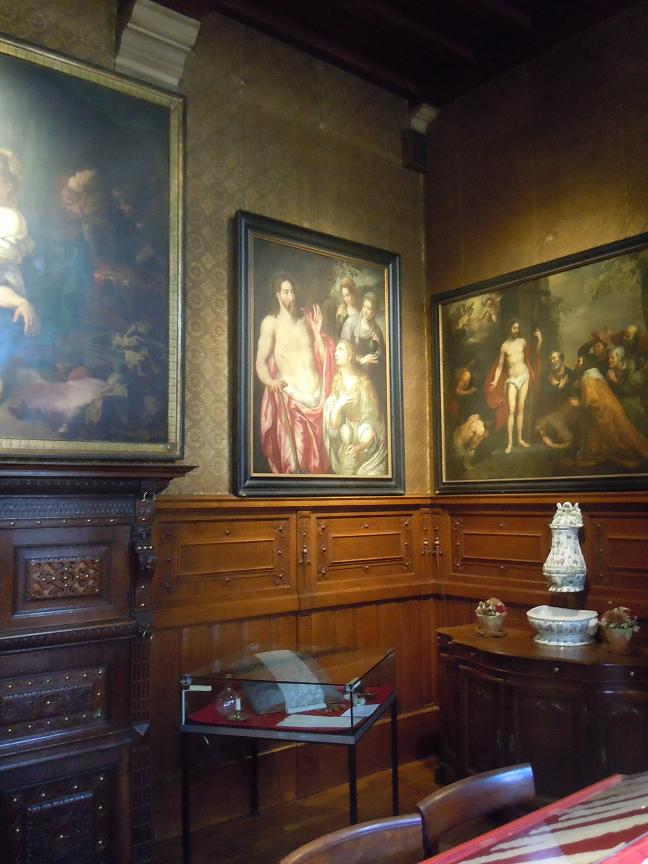 Maagdenhuis (Antwerpen)